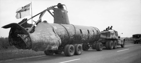 AWM Caption: Rear view of part of the wreckage of the Japanese midget submarine, which was sunk in the Sydney Harbour during the Second World War. The midget submarine was loaded onto a transporter enroute between Sydney and Melbourne during an exhibition tour to raise money for the naval relief fund and is now part of the Australian War Memorial's collection.